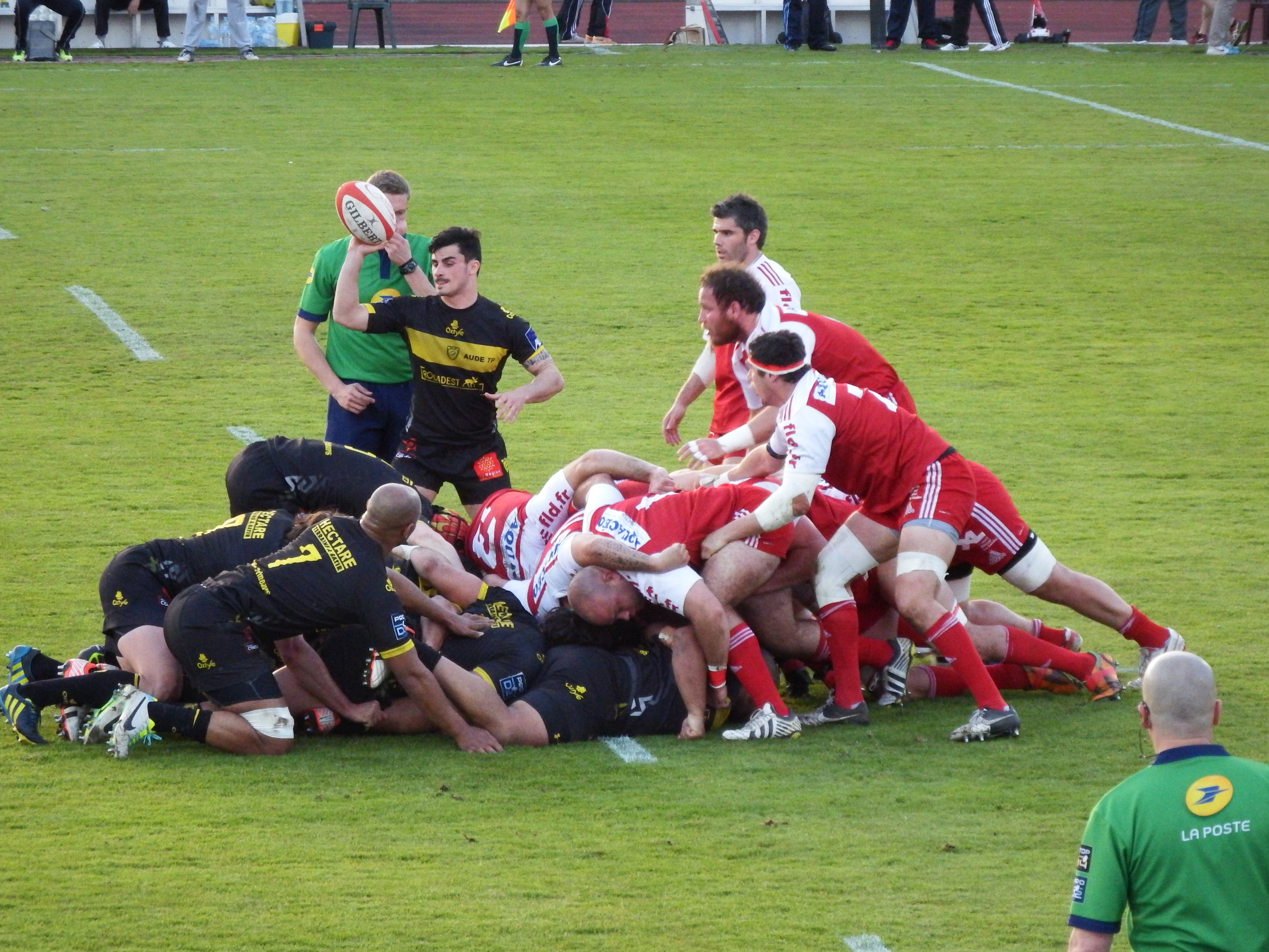 Pro D2 2013-2014 — 29 March 2014, Stade Maurice Boyau. Match between: US Dax — US Carcassonne